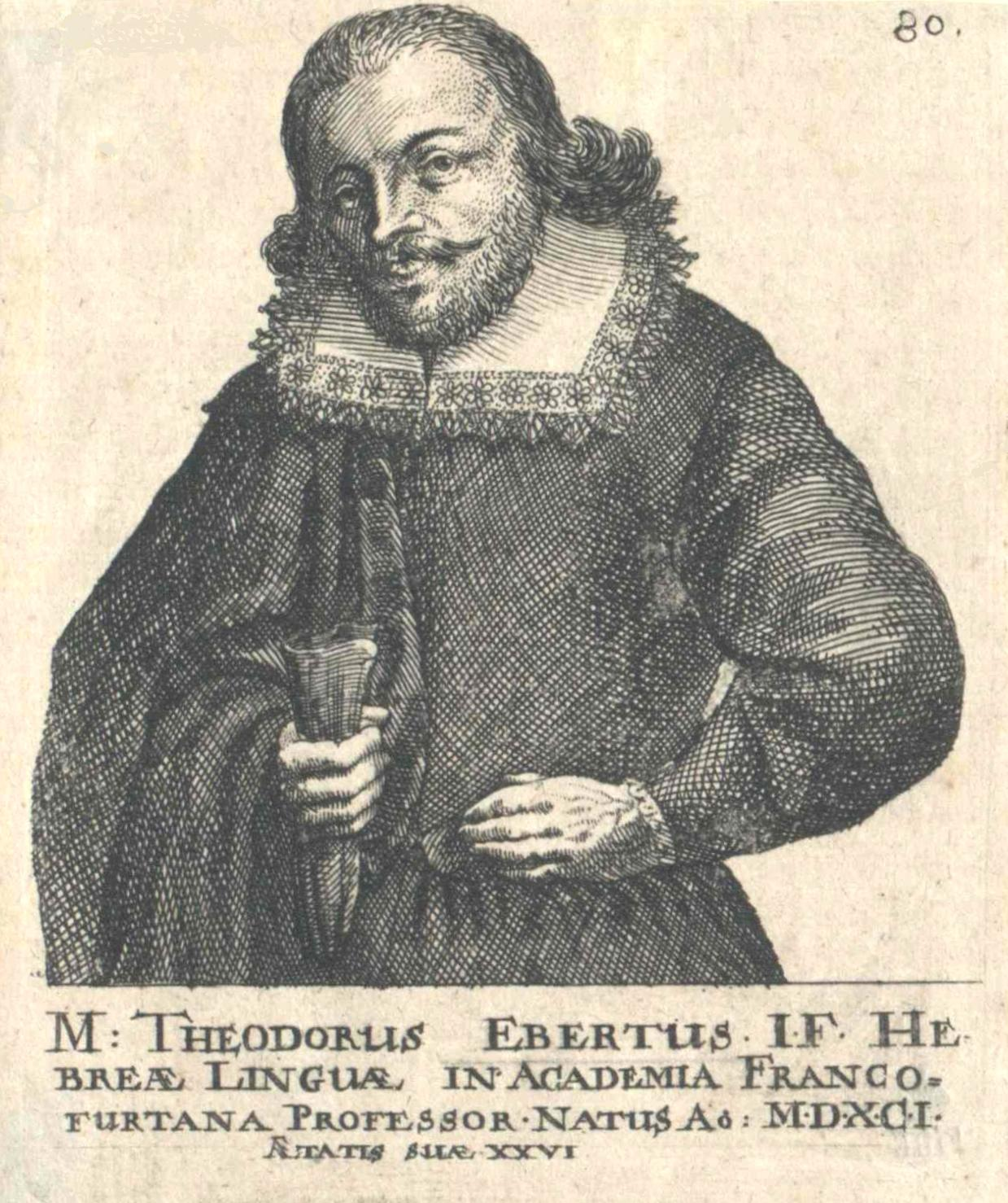 Theodor Ebert (1589–1630)